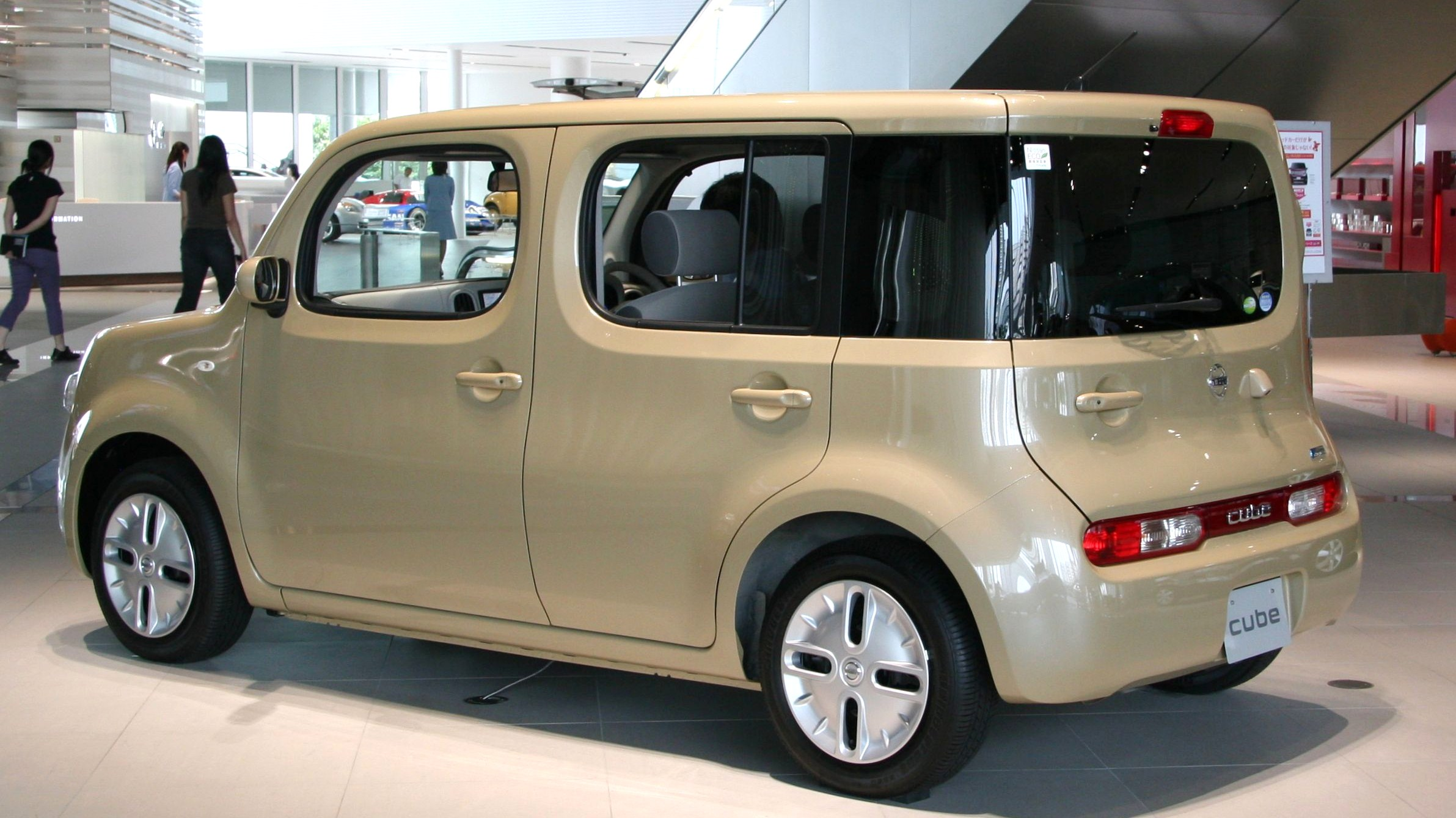 NISSAN cube